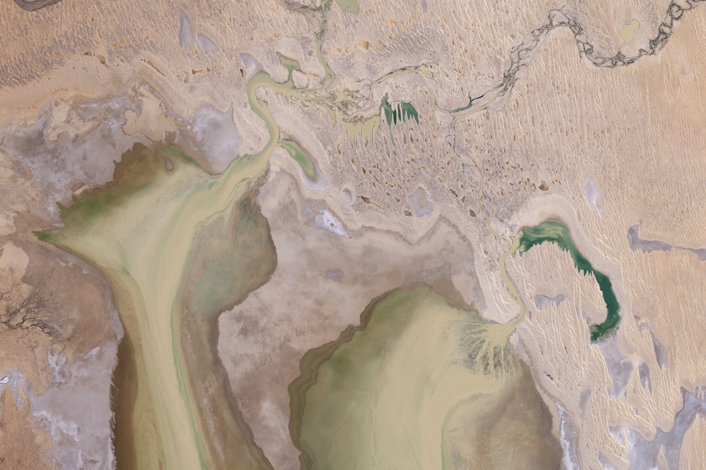 Waves in central Australia’s Simpson Desert usually come in the form of sand dunes. In this image, they ripple in long vertical lines across the surface of the desert. The image provides a natural-colour view of water pouring into the lake through one of many channels that drain the desert during the rainy season. The muddy brown water spreads into the lake in a triangular alluvial fan.